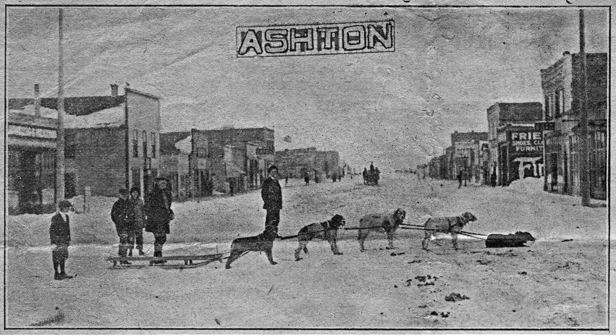 Kent Winning First American Dog Derby